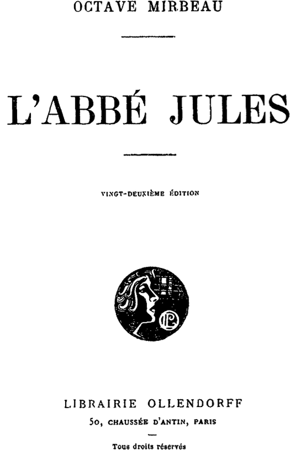 Abbé Jules (1888) by Octave Mirbeau (1848-1917)